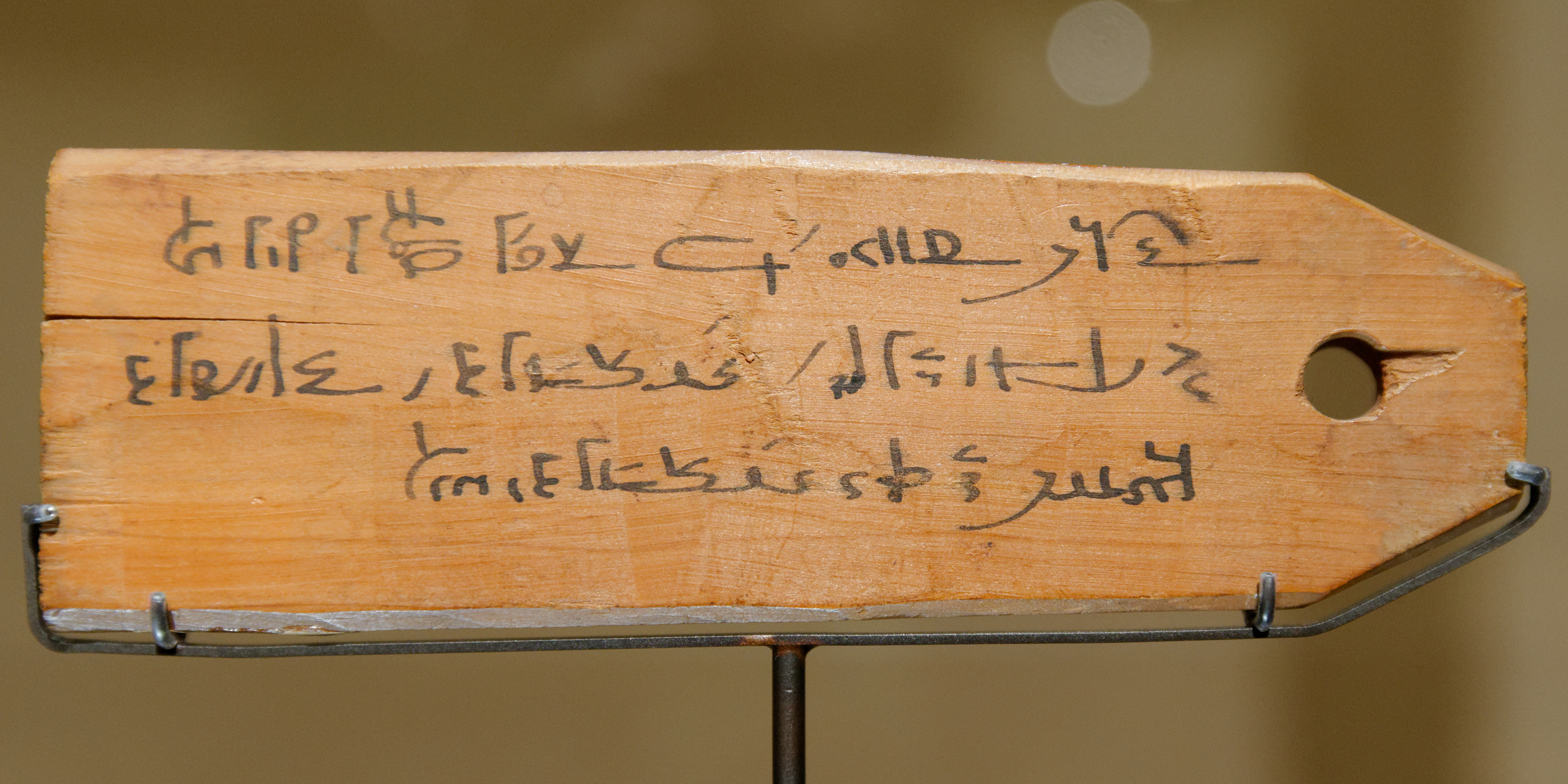 Mummy label of Haryothes, son of Imouthes, himself the son of Senharyotes the elder. Greek inscription on one side, Demotic inscription on the other. From the necropolis of Triphion, Sohag, Egypt.